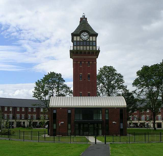 Clock Tower of the old Workhouse - Wood Lane The Workhouse site is now a housing development known as St George's Park. The old clock tower has been preserved.